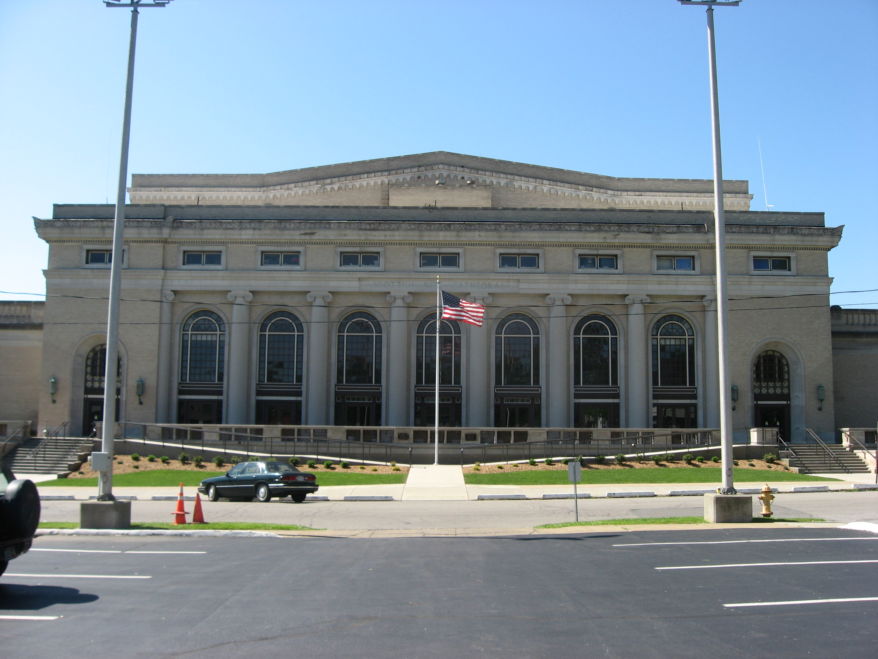 Front of the Scottish Rite Cathedral, located at 110 E. Lincoln Avenue in New Castle, Pennsylvania, United States. Built in 1926, the cathedral is listed on the National Register of Historic Places.